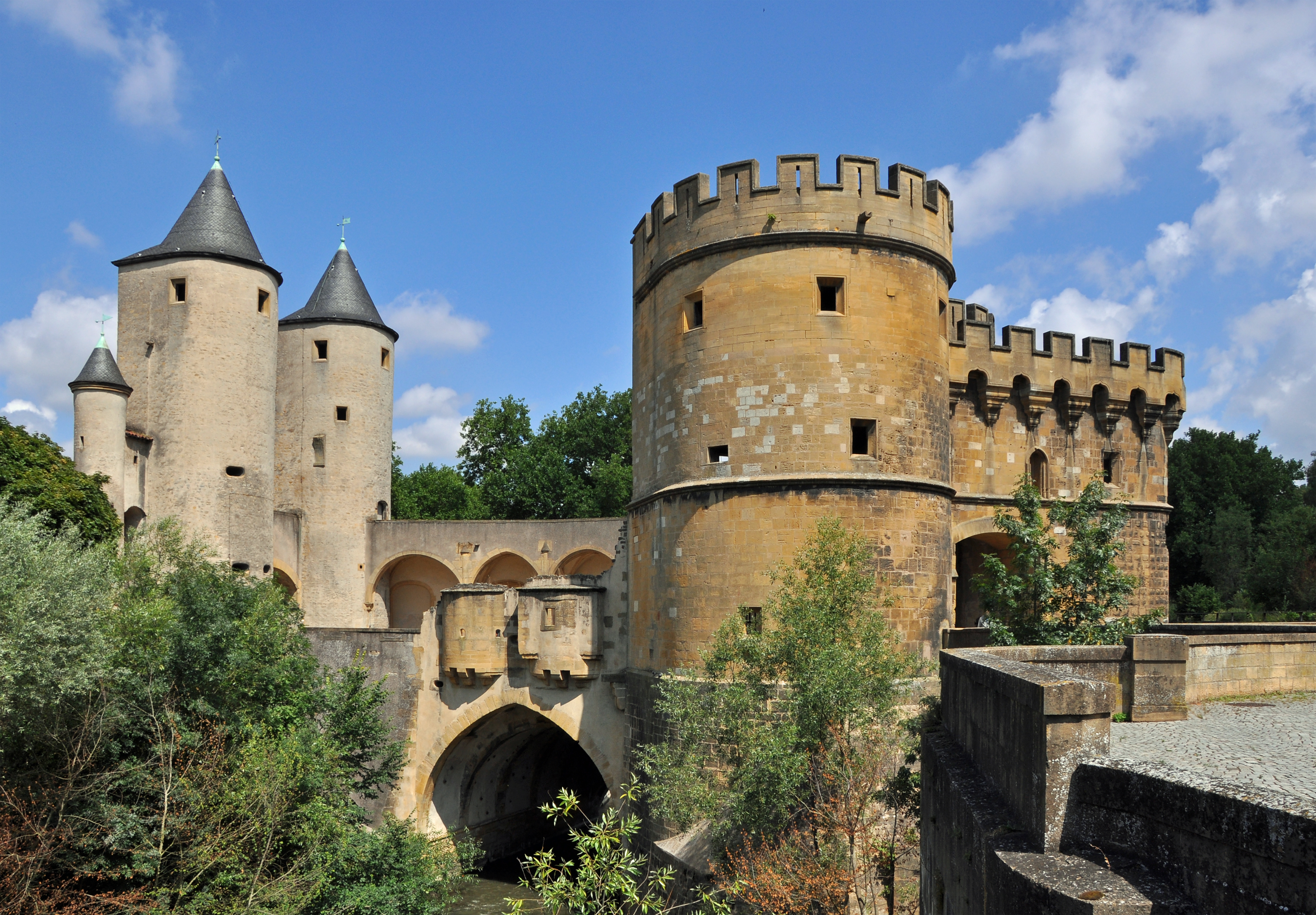 Metz (France): Porte des Allemands